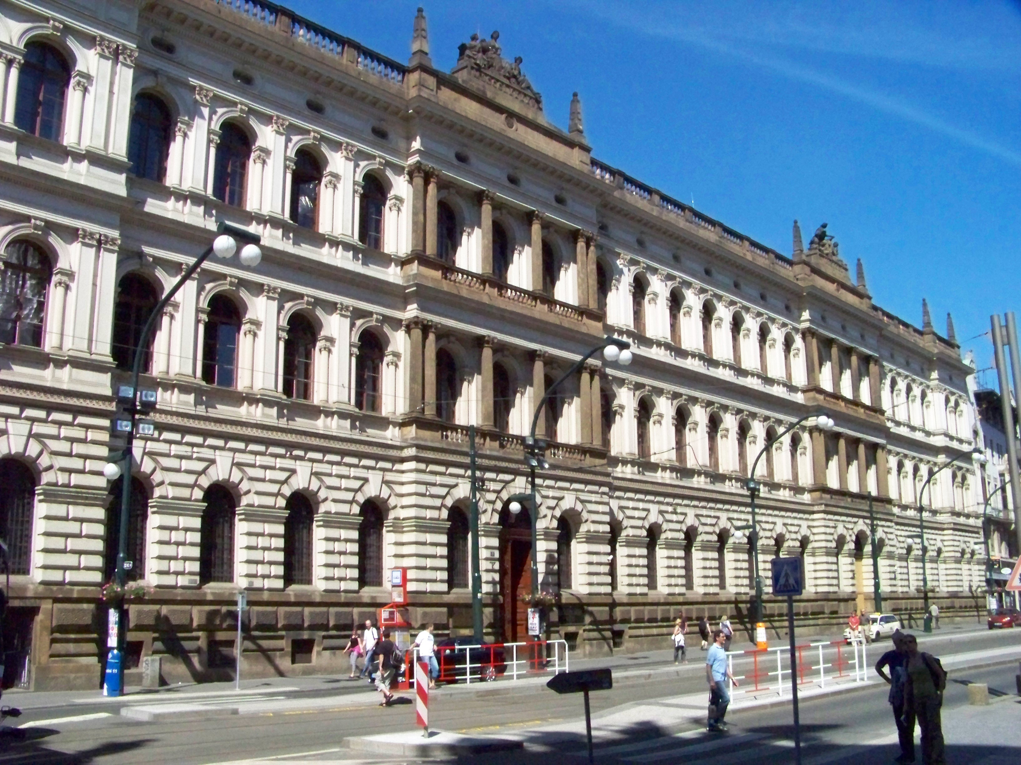 Prague-Old Town, the Czech Republic. Národní street, a building of the Academy of Sciences of the Czech Republic.